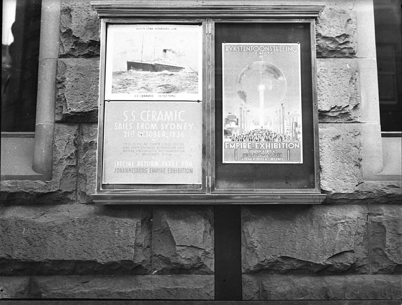 Dalgety's display (includes Ceramic steamship & poster for Johannesburg Empire Exhibition)